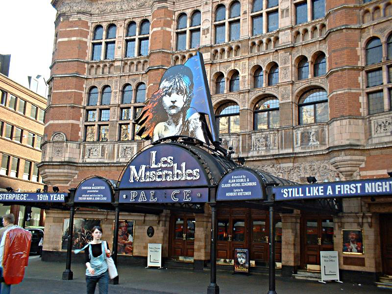 Palace Theatre, Shaftesbury Avenue, London